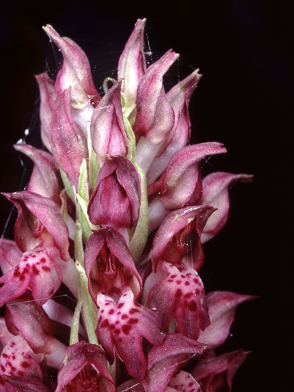 Anacamptis coriophora